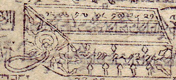 Tibetan box measure, probably 1 bre, from a Tibetan blockprint of the Vaidurya dkar-po (1685). The numbers are added for divination and are otherwise not attached to such a box.